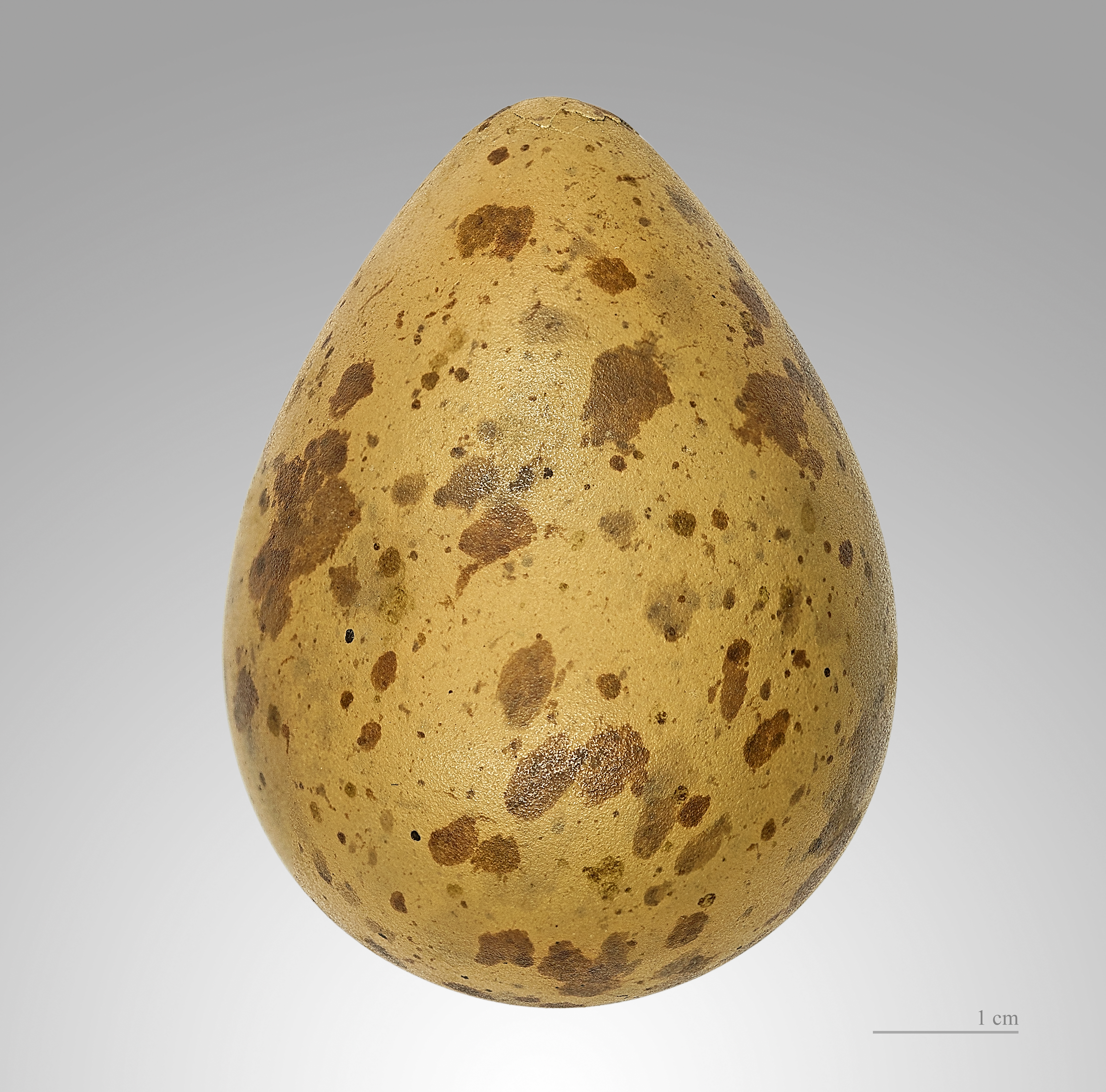 Egg of Whimbrel. Collection of Jacques Perrin de Brichambaut.